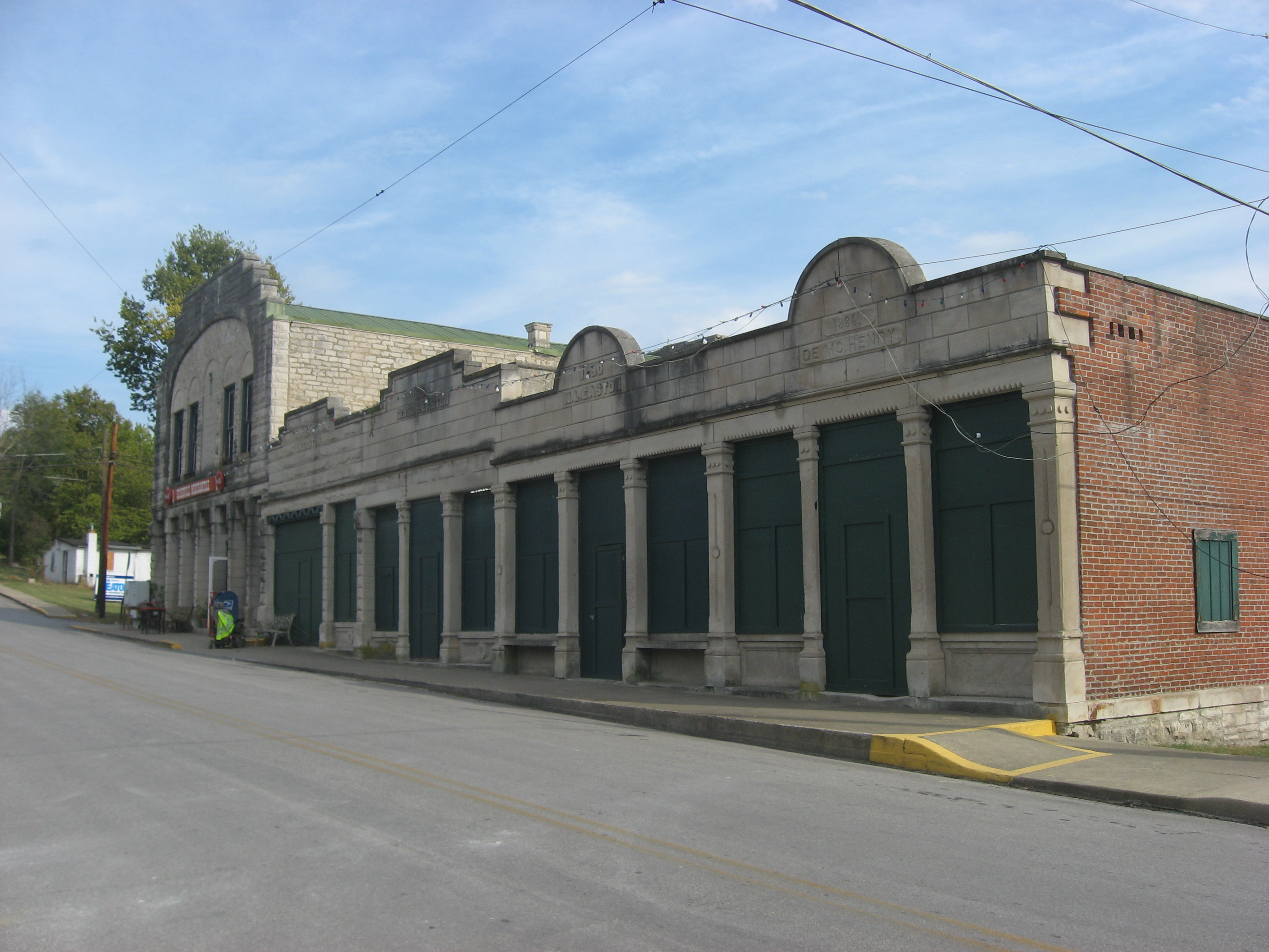 Comprehensive view of the Stinesville Commercial Historic District, located at 8201-8237 W. Main Street in Stinesville, Indiana, United States. The historic district is listed on the National Register of Historic Places.